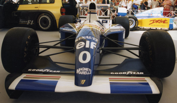 Williams FW14 (1994 livery)